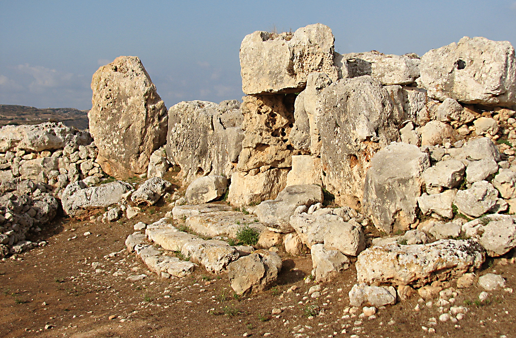 Ta' Ħaġrat Temple in Malta.